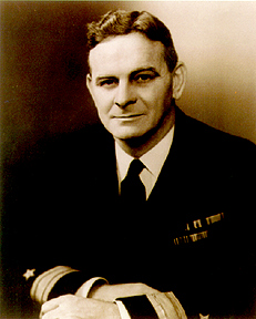 Rear Admiral Andrew McKee while a commander in the US Navy